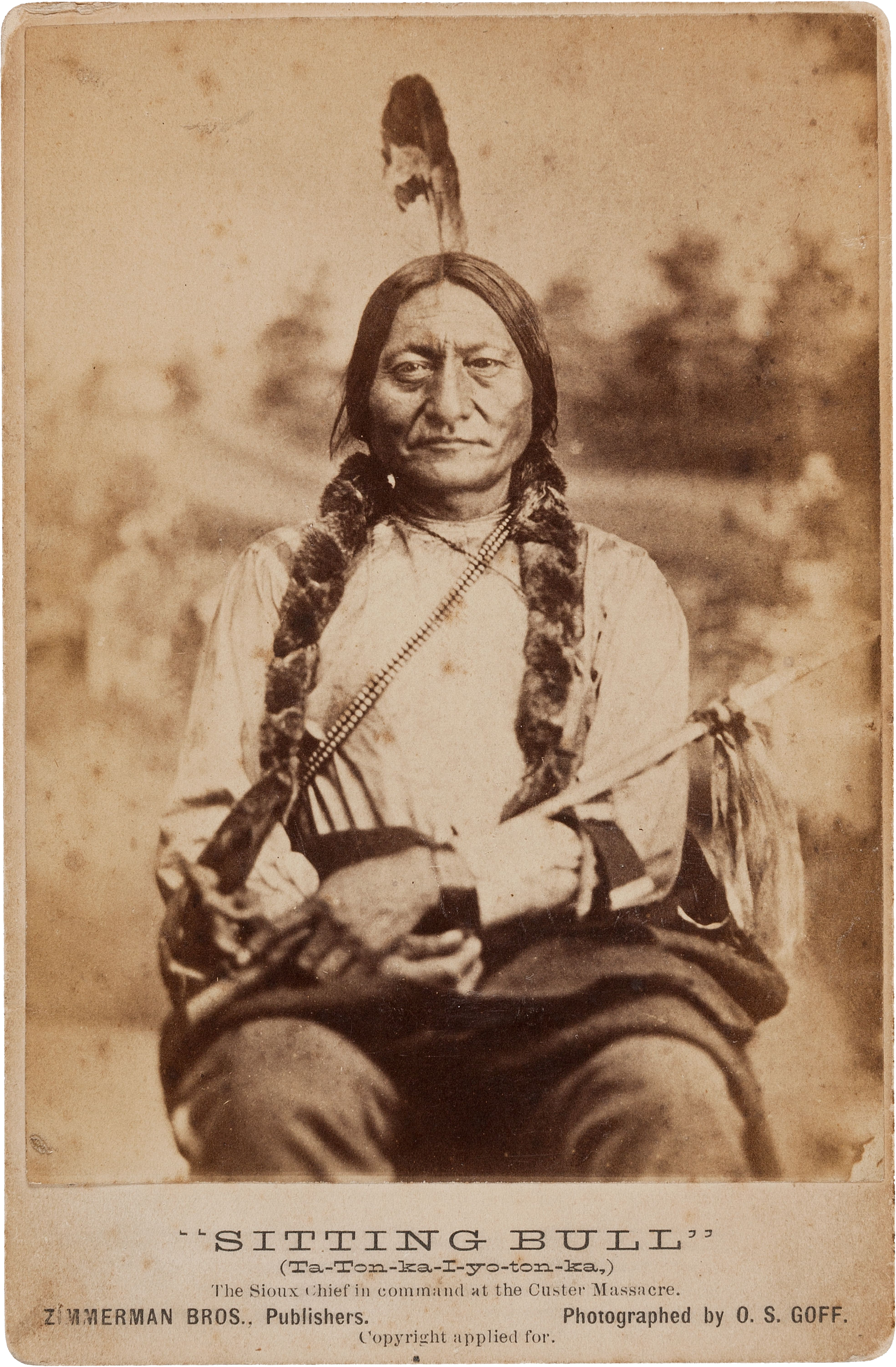 Early Cabinet card of Sitting Bull, which sold at auction in 2013 for $4,182.50